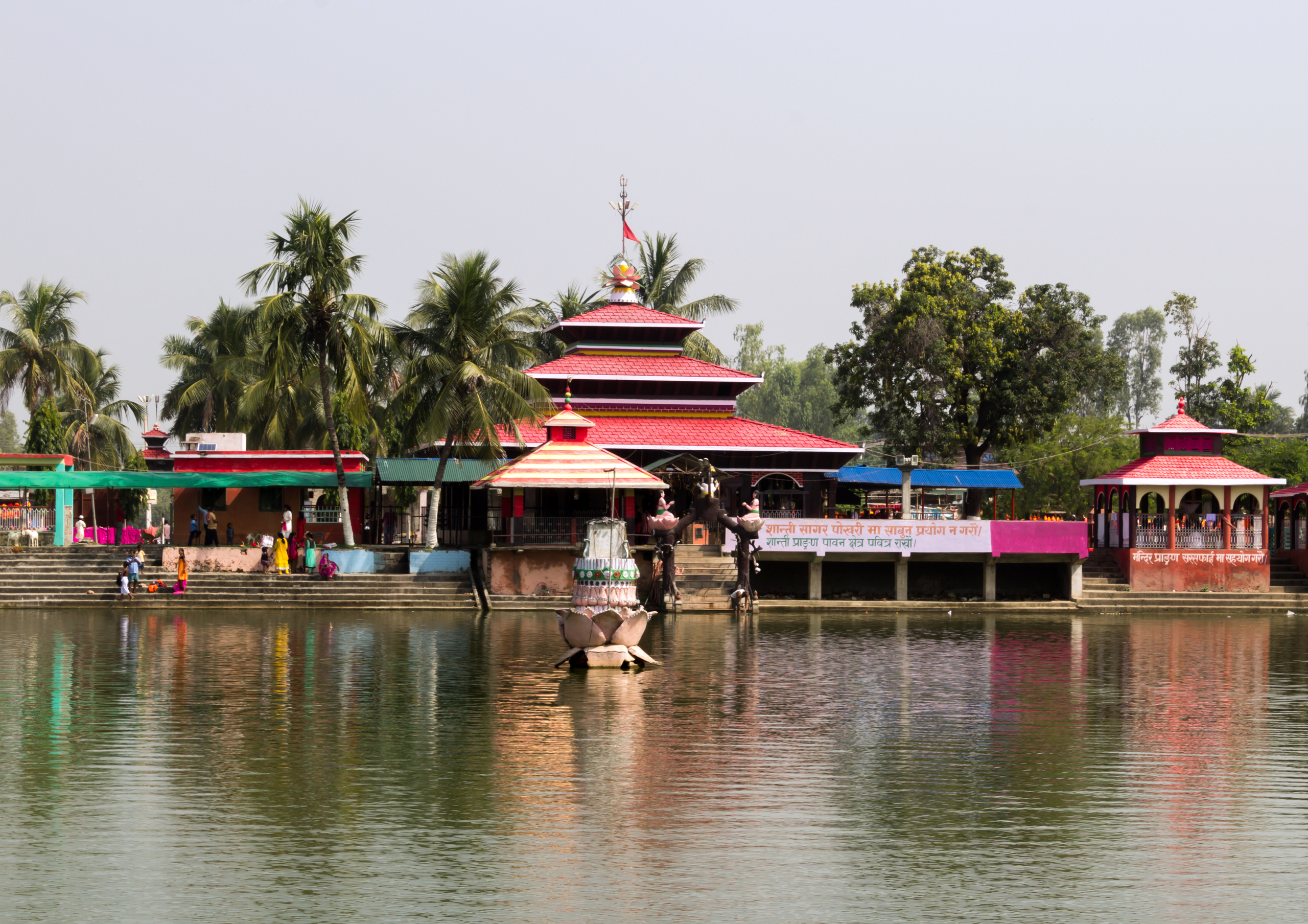 Chinnamasta Temple Rajbiraj Saptari